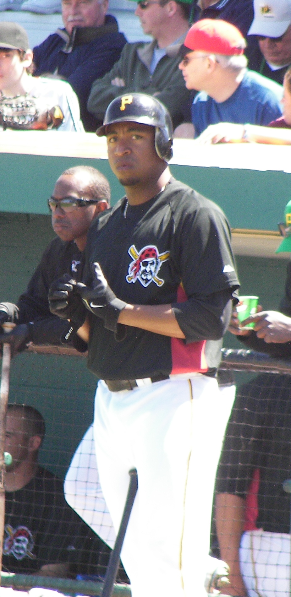 Pittsburgh Pirates second baseman José Castillo during a Pirates/Minnesota Twins spring training game at McKechnie Field in Bradenton, Florida.